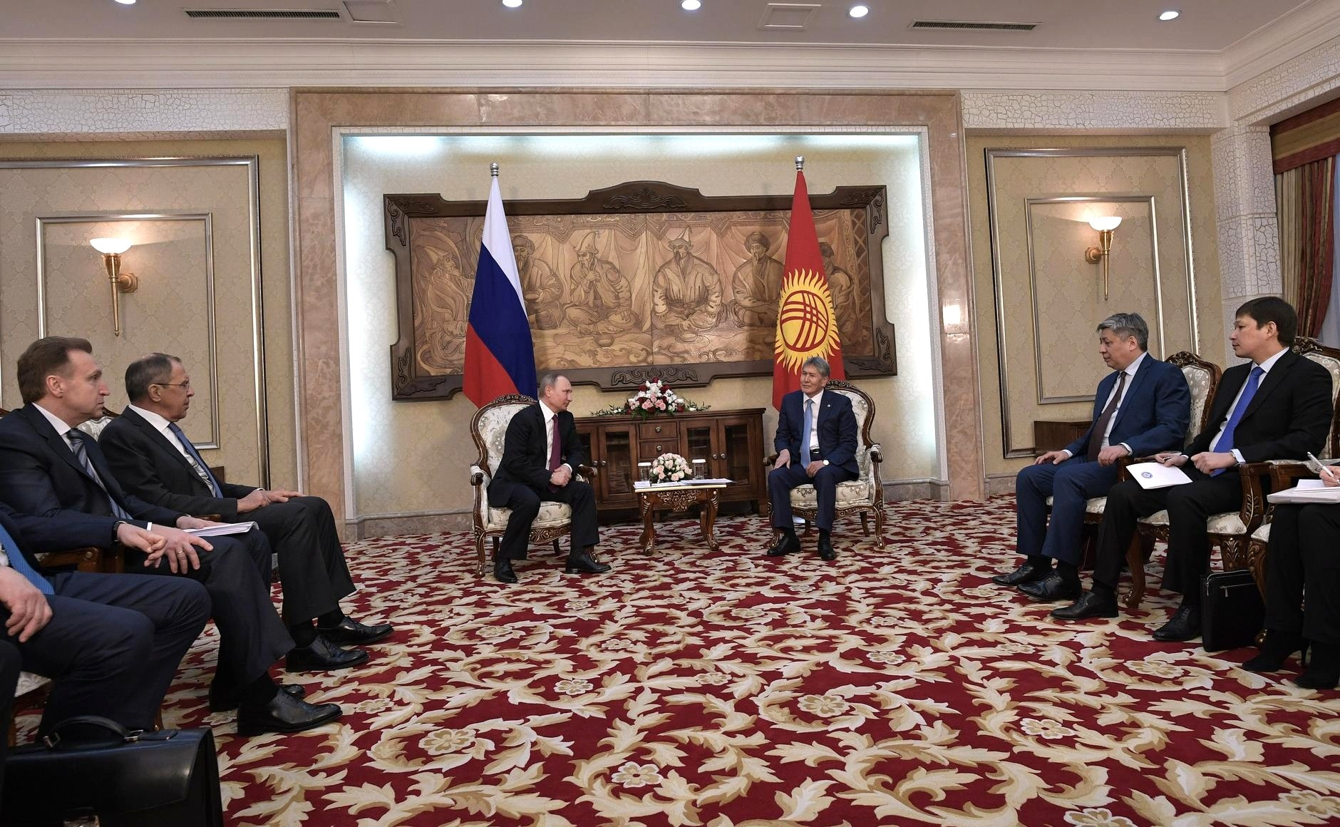 Russian president Vladimir Putin in Kyrgyzstan. February 2017.